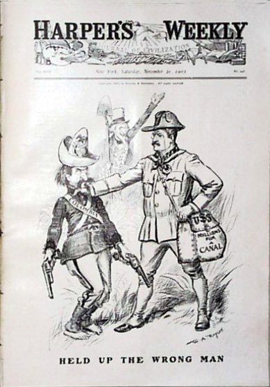 Colombia Holding Up The Wrong Man